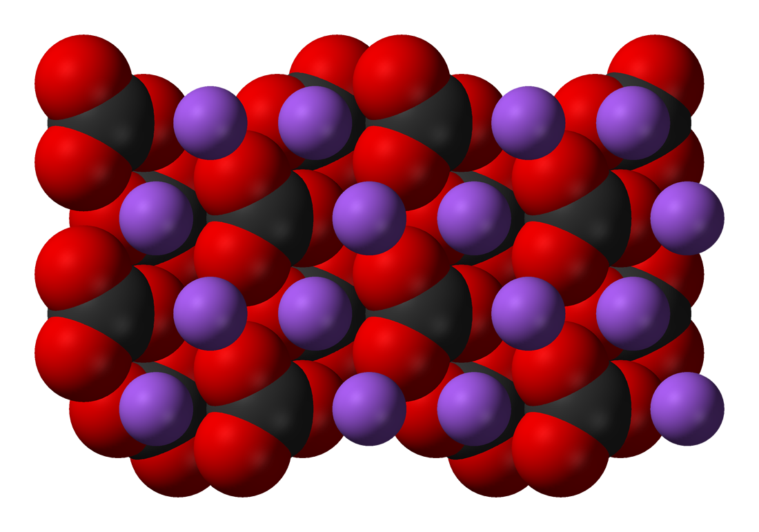 Space-filling model of part of the crystal structure of the gamma polymorph of sodium carbonate, γ-Na2CO3. X-ray crystallographic data from Acta Cryst. (2003). B59, 337-352.